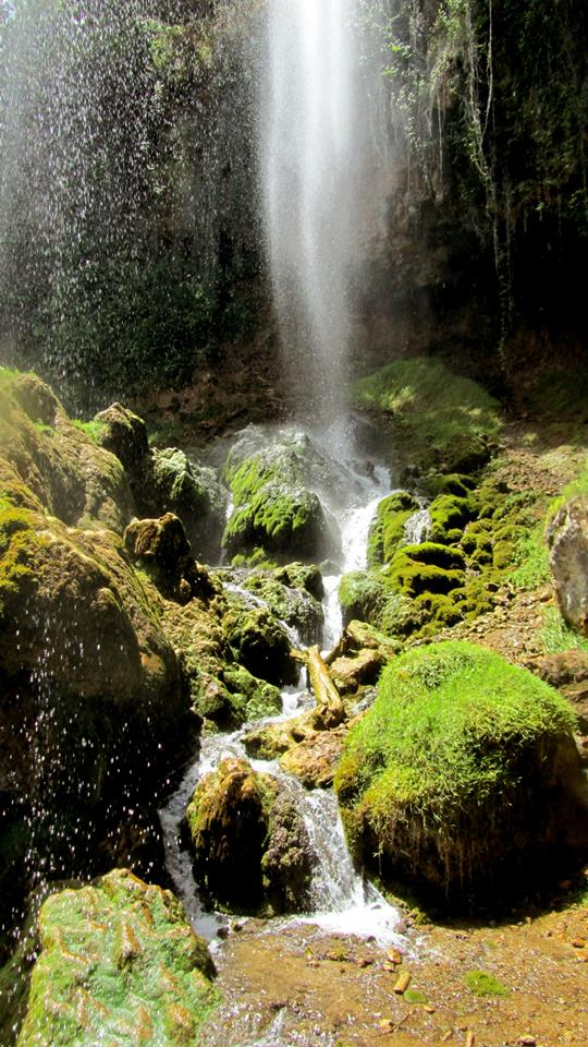 Polska Skakavitza waterfall (Polska Skakavitza village, Kyustendil Municipality